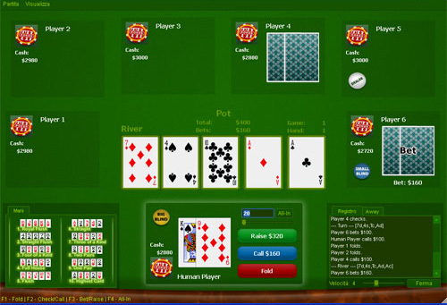 Screenshot of open-source Poker Online table